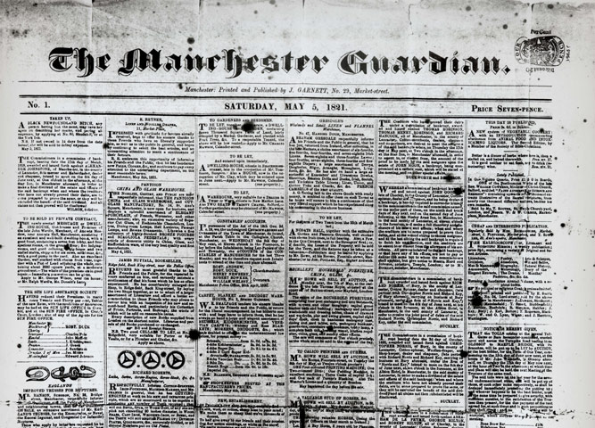 Cover to the first edition of The Manchester Guardian.